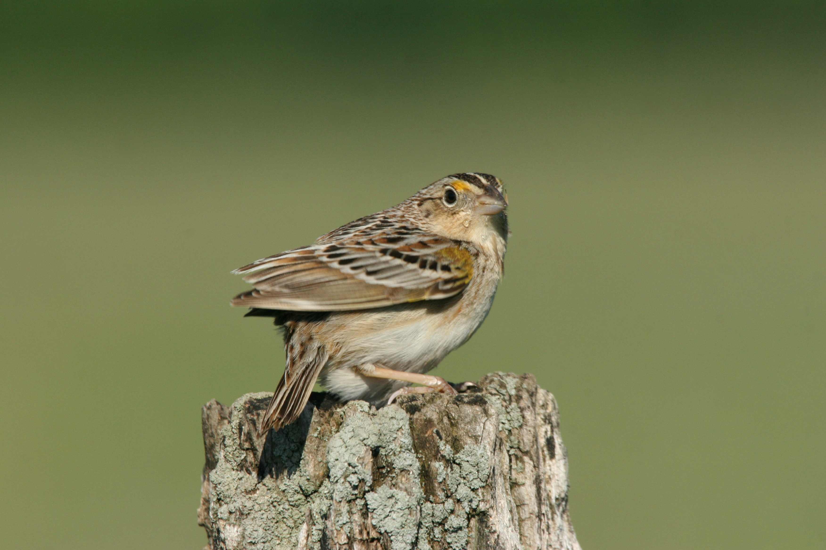 Grasshopper Sparrow (Ammodramus savannarum)